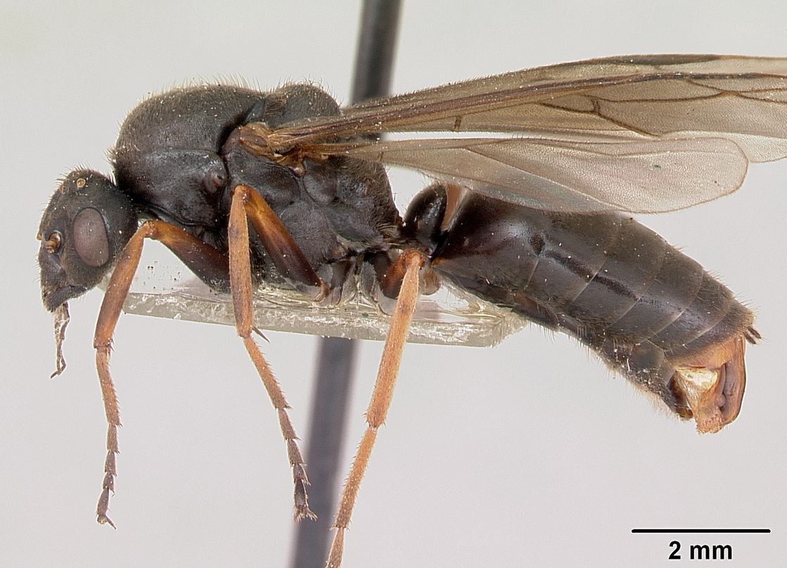 Profile view of ant Formica lugubris specimen casent0173011.